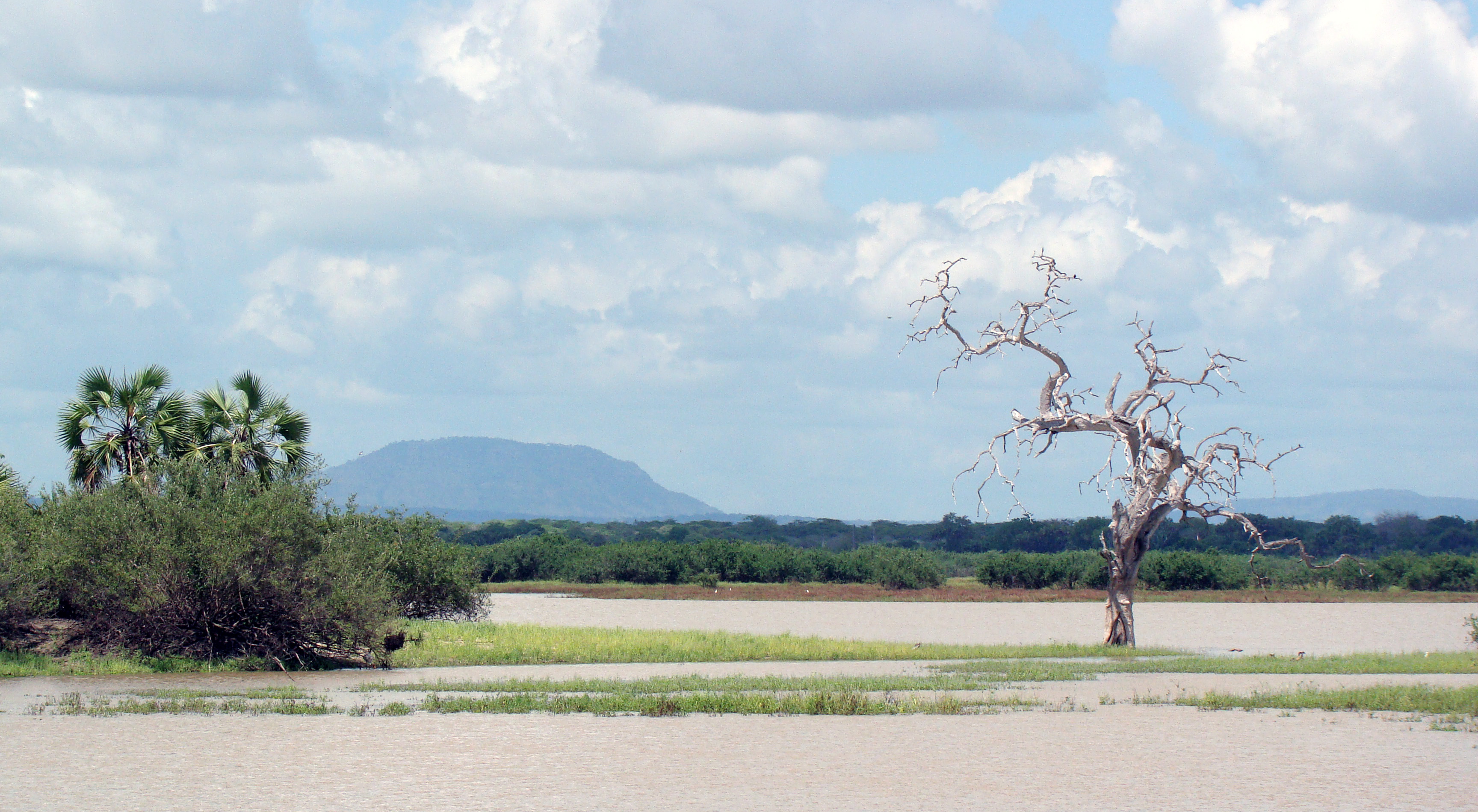 Central Tanzania, Selous Game Reserve. Landscape view near Rufiji river, Selous.